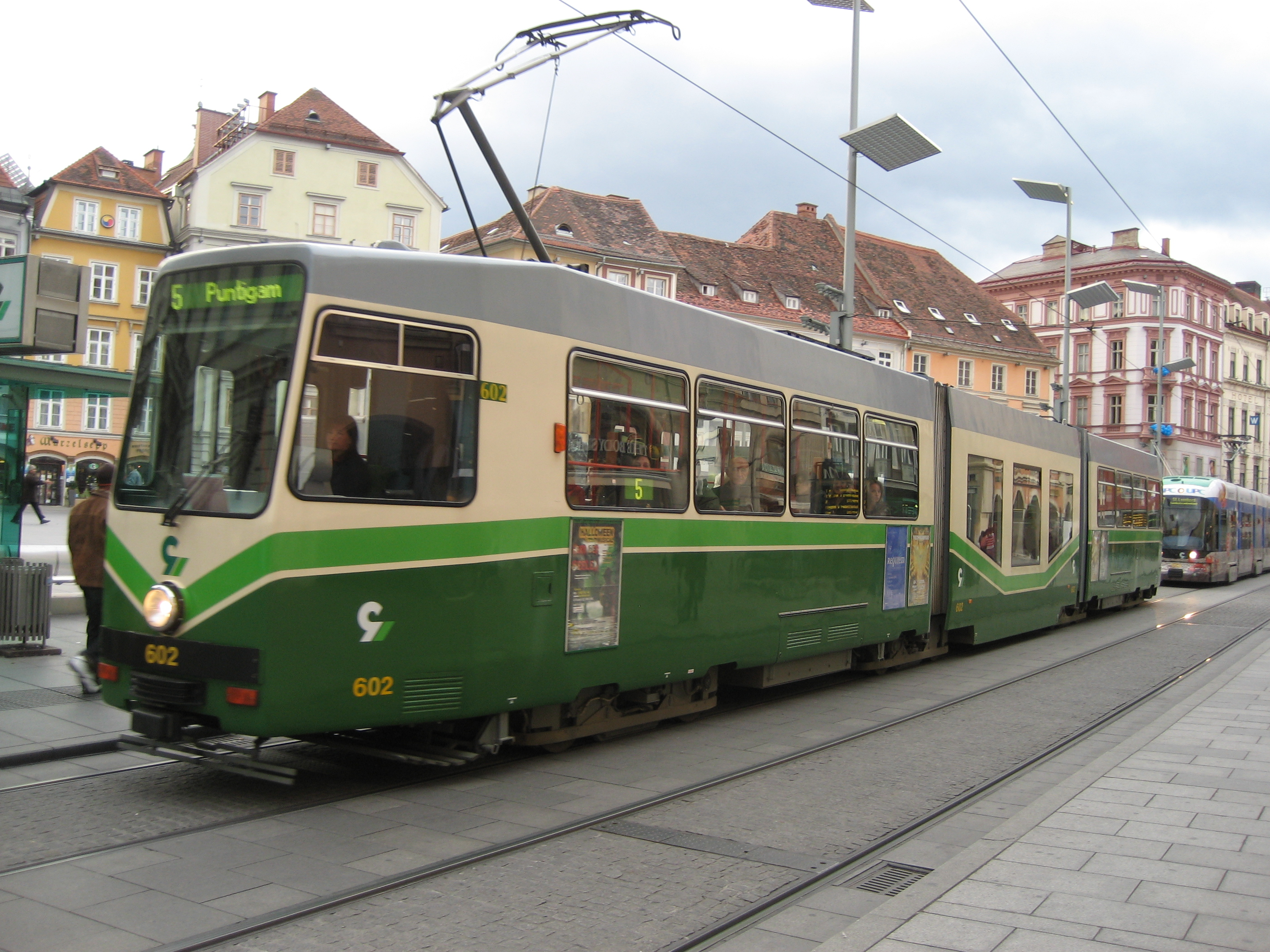 A tram on Hauptplatz in the Austrian city of Graz.